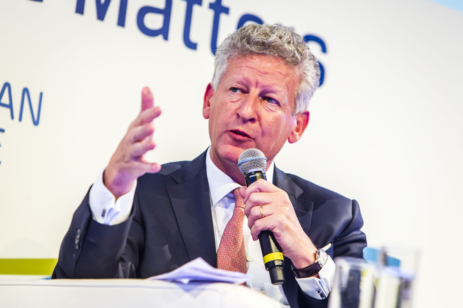 Pieter De Crem, Vice-Prime Minister, Minister of Defence, Belgium. Special session on European Defence Matters conference